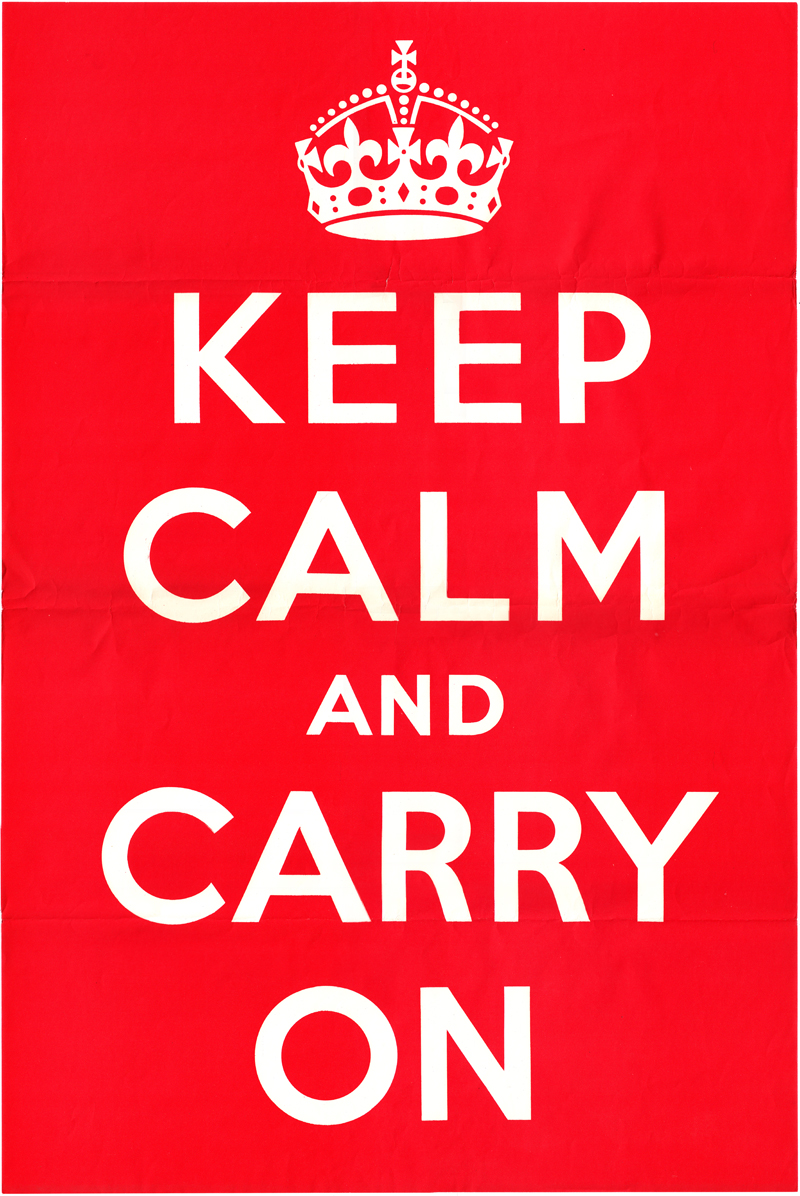 Digital scan of original KEEP CALM AND CARRY ON poster owned by .